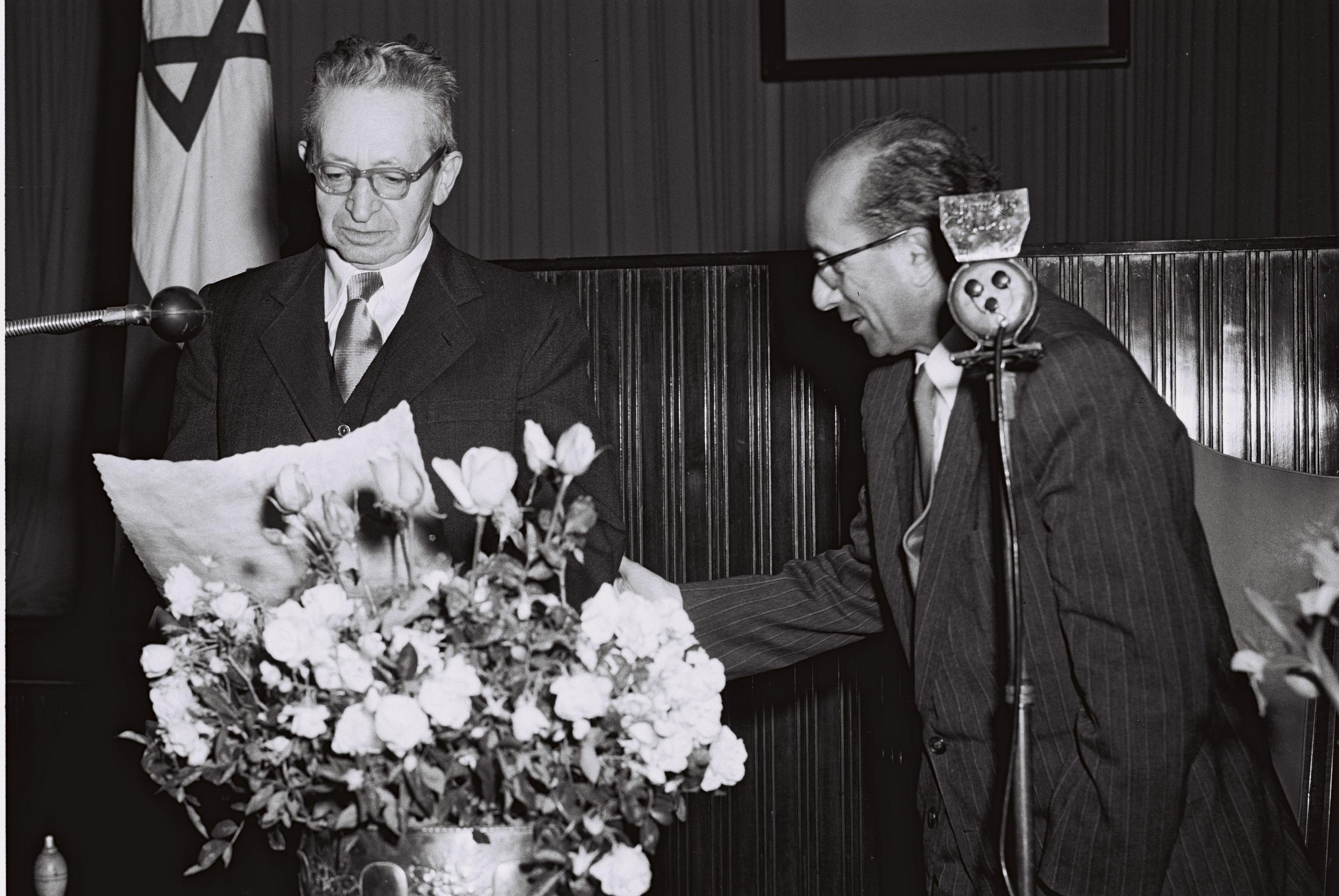 Mayor of Tel Aviv, mr. Levanon, presents president Yitzhak Ben Zvi with the scroll of freedom of Tel Aviv.